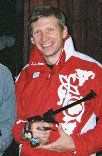 The Russian shooter Mikhail Nestruyev.